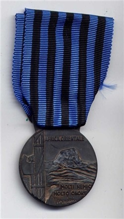 Commemorative Medal for the Operations in the East Africa